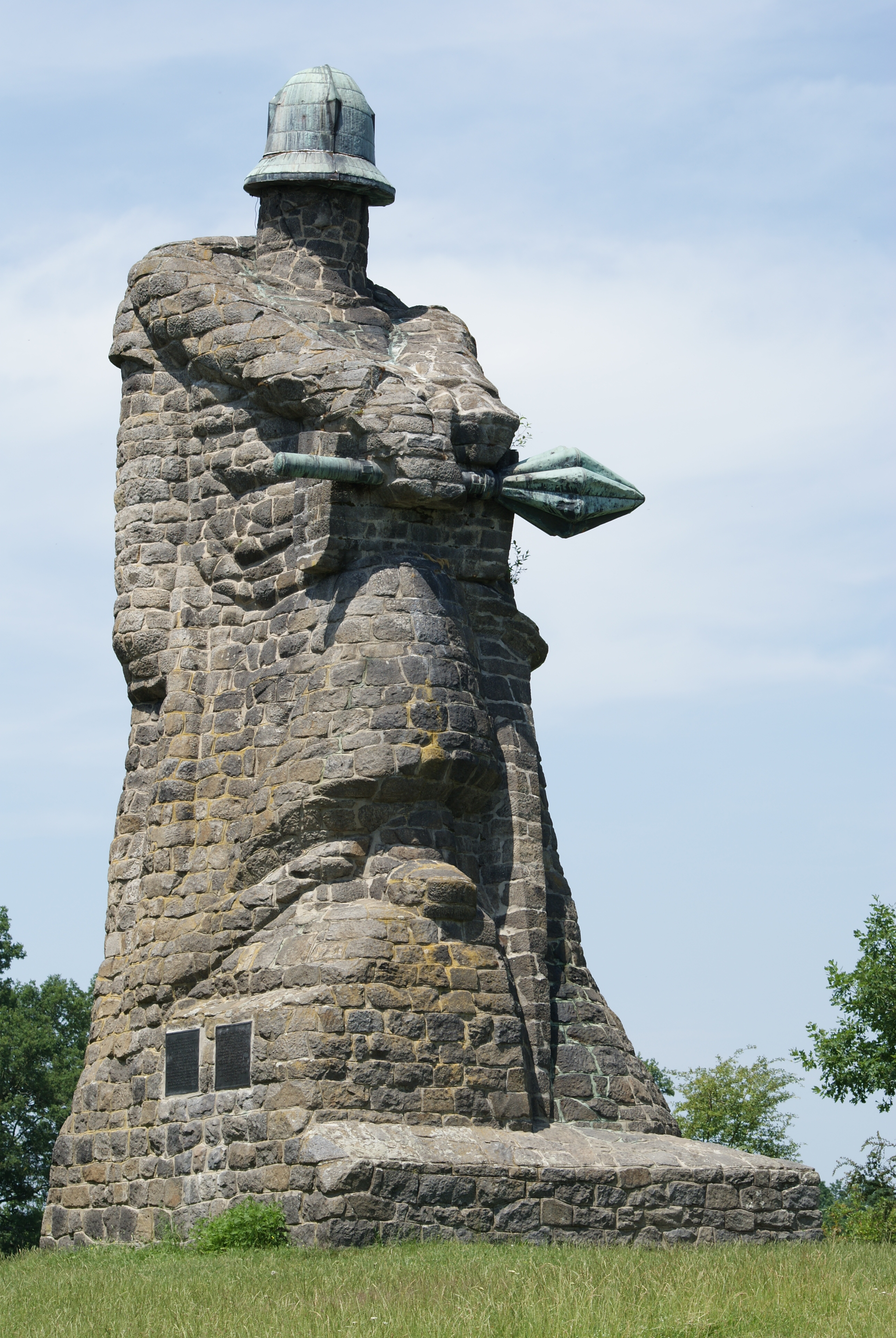 Žižka memorial at the Battle of Sudoměř area near Sudoměř village, Strakonice district, Czech Republic. Česky: Památník Jana Žižky v areálu bitvy u Sudoměře, okres Strakonice